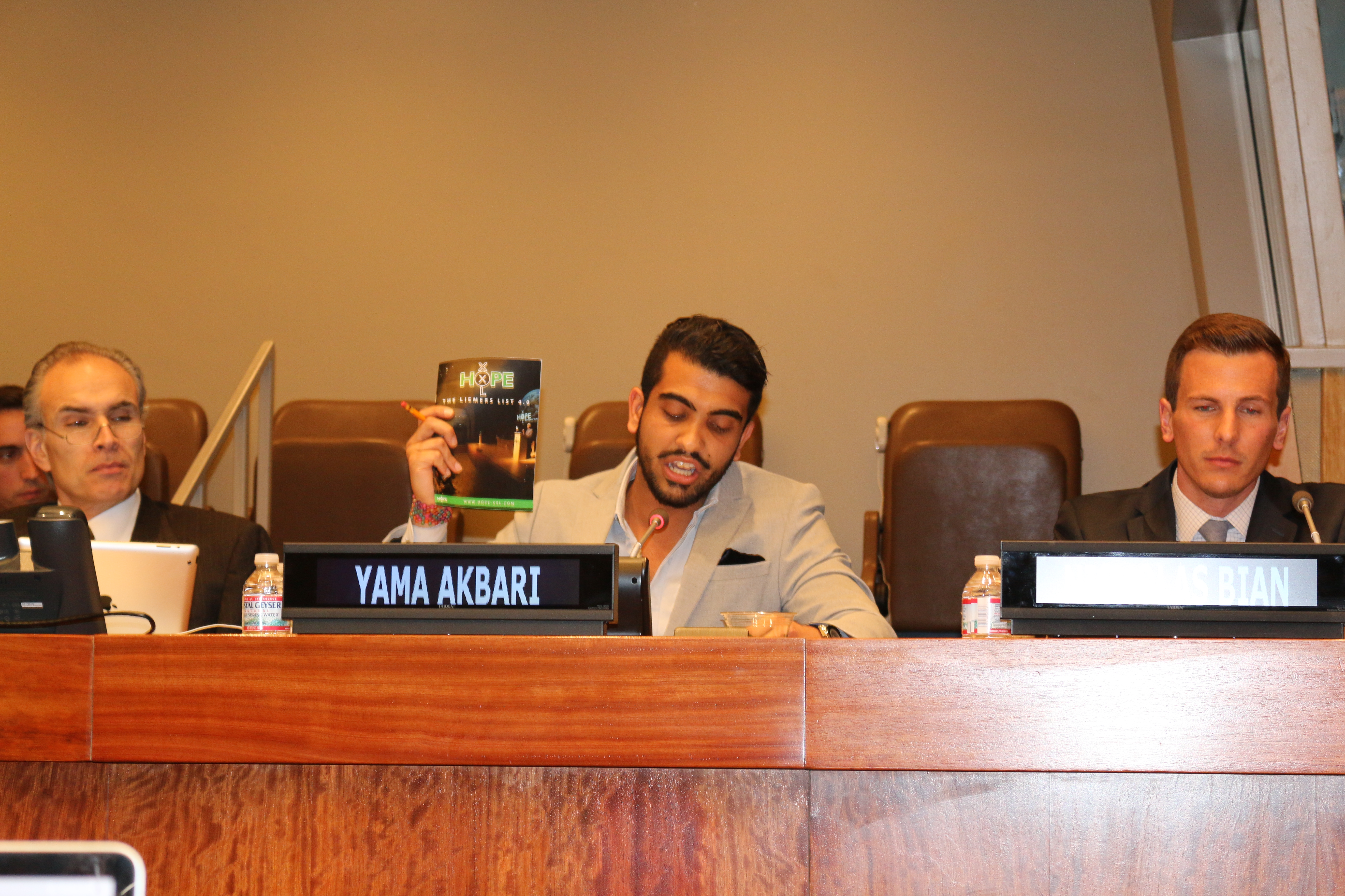 Presentation Liemers list with VN by Yama Akbari on 3 februari 2015